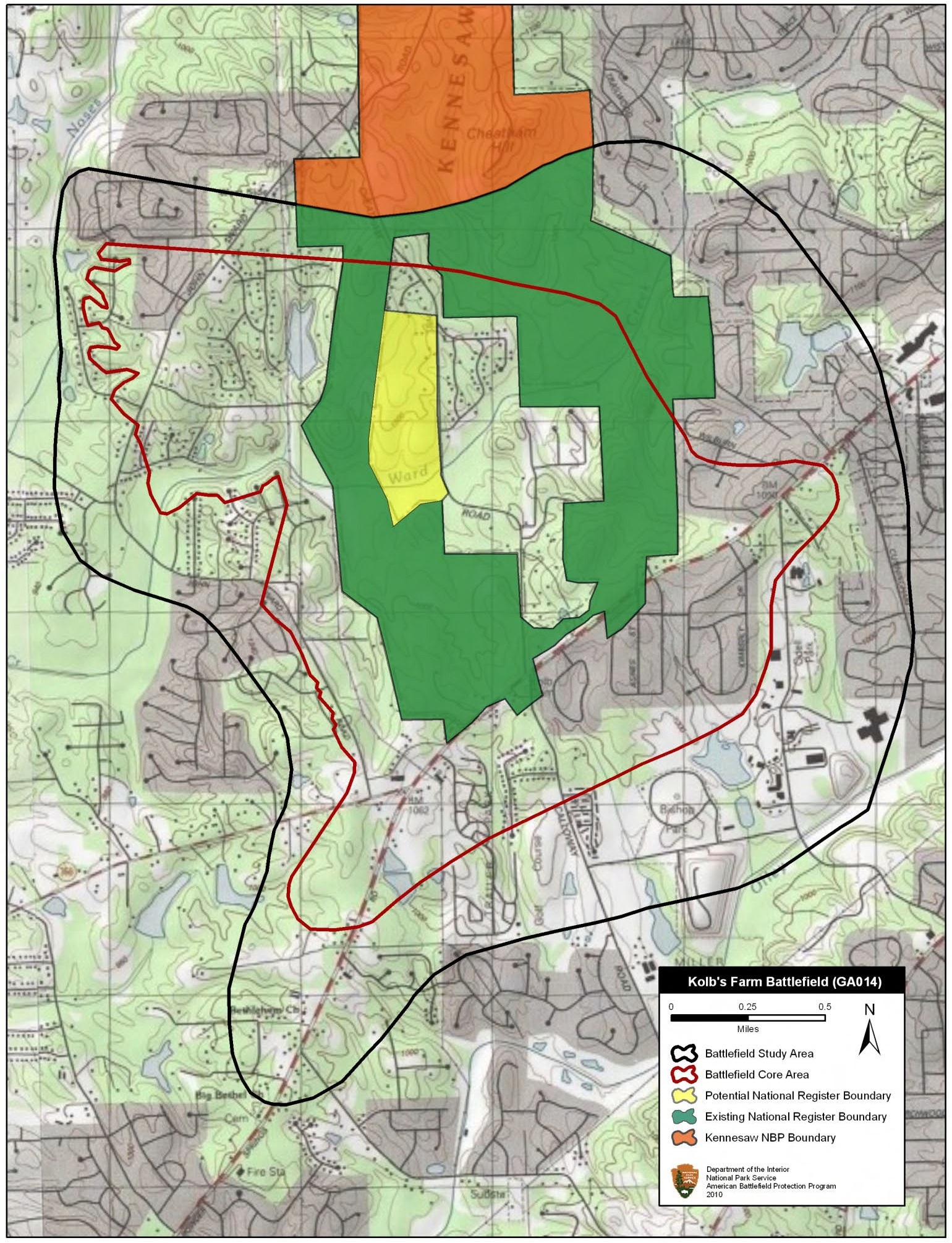 Map of battlefield core and study areas. The ABPP expanded the 1993 Study Area and the Core Area on the south to include the Federal artillery positions and the skirmishing near Olley Creek. The Study Area was also expanded to the north to take in the XXIII Corps’ line of battle. The Core Area now includes all the artillery positions along the Federal line of battle and several batteries located behind the XXIII Corps’ position.